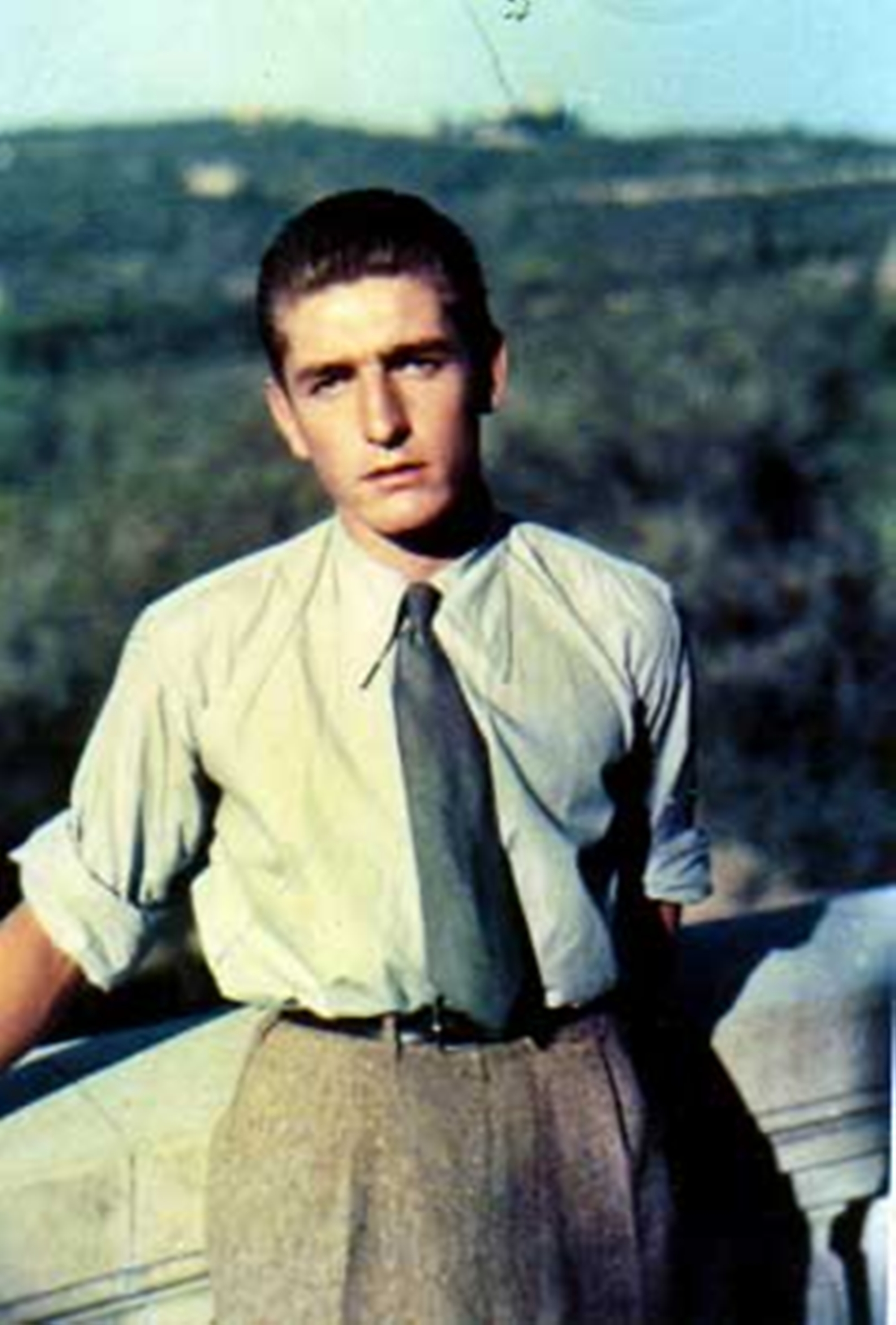 This image is a colorized photo of Blessed Alberto Marvelli taken in front of his friend's (Salani's) villa in Firenze, Italy